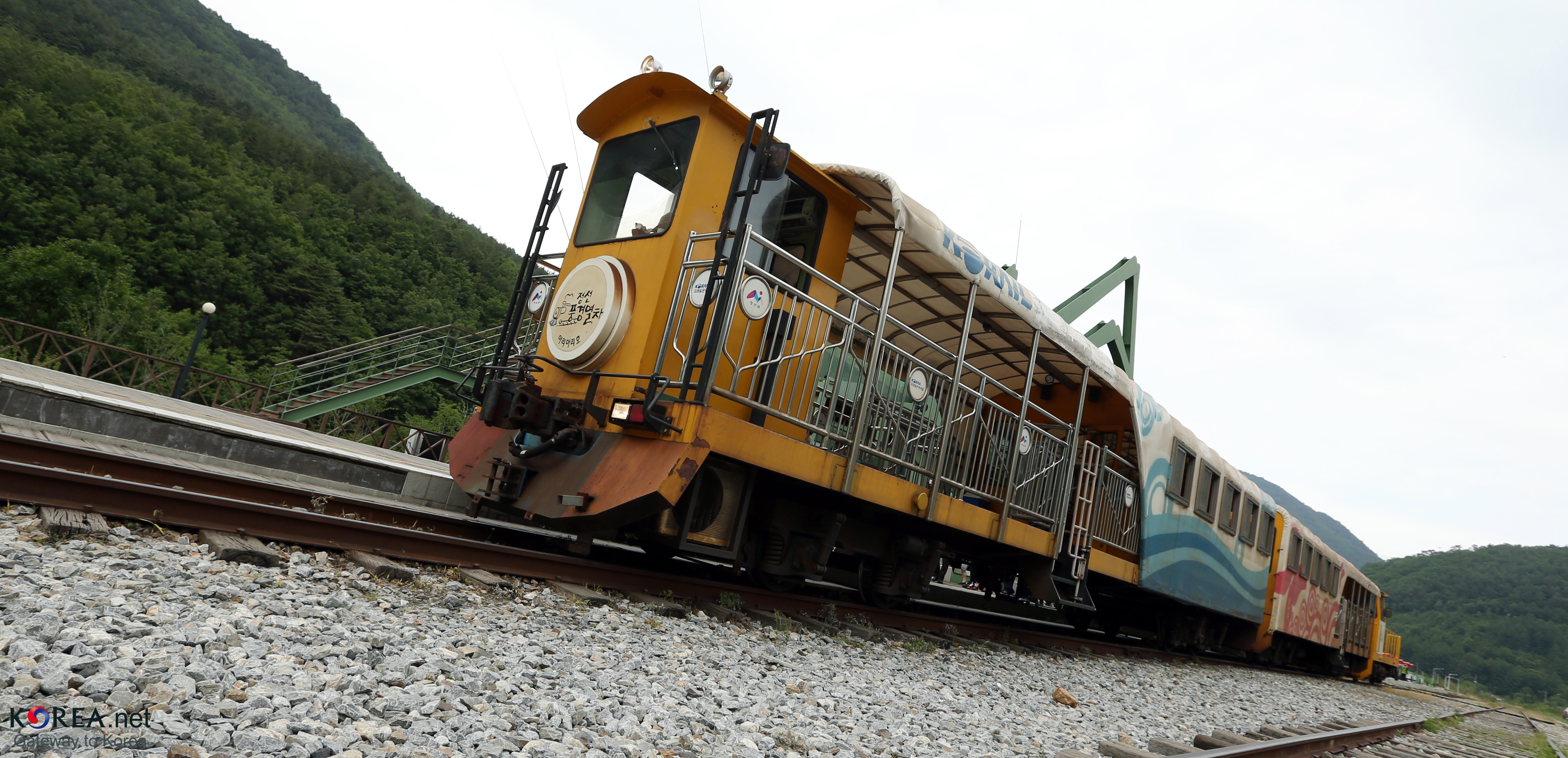 Jeongseon Traditional Market Railbike & Sightseeing Train June 7, 2014 Jeongseon-gun, Gangwon-do Ministry of Culture, Sports and Tourism Korean Culture and Information Service ( Official Photographer: Jeon Han 팔도장터 관광열차 – 강원도 정선 아리랑시장 레일바이크와 풍경열차 2014-06-07 강원도 정선군 문화체육관광부 해외문화홍보원 코리아넷 전한